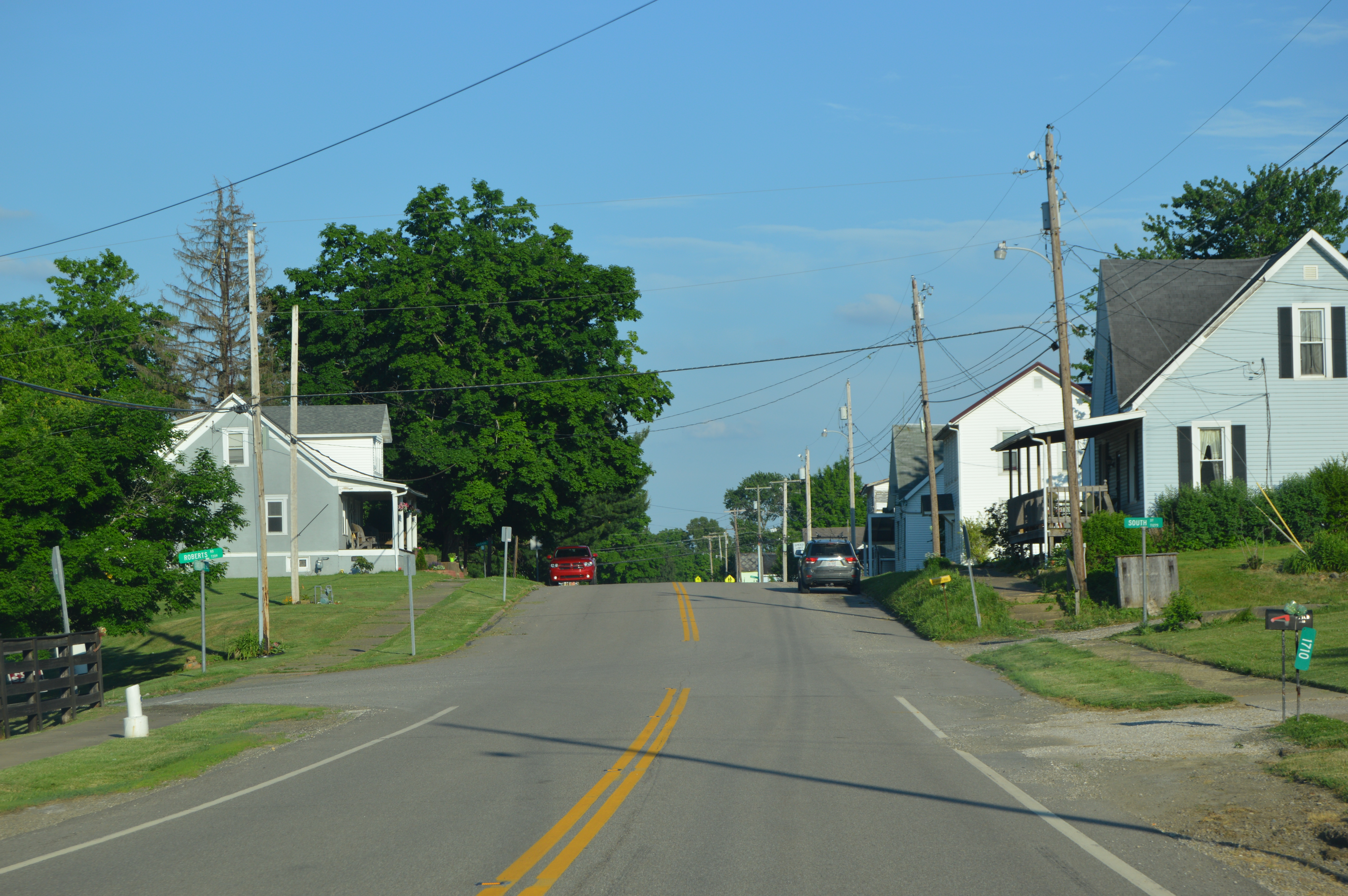 Looking east along State Route 550 by the South Street intersection in Bartlett, Ohio, United States.